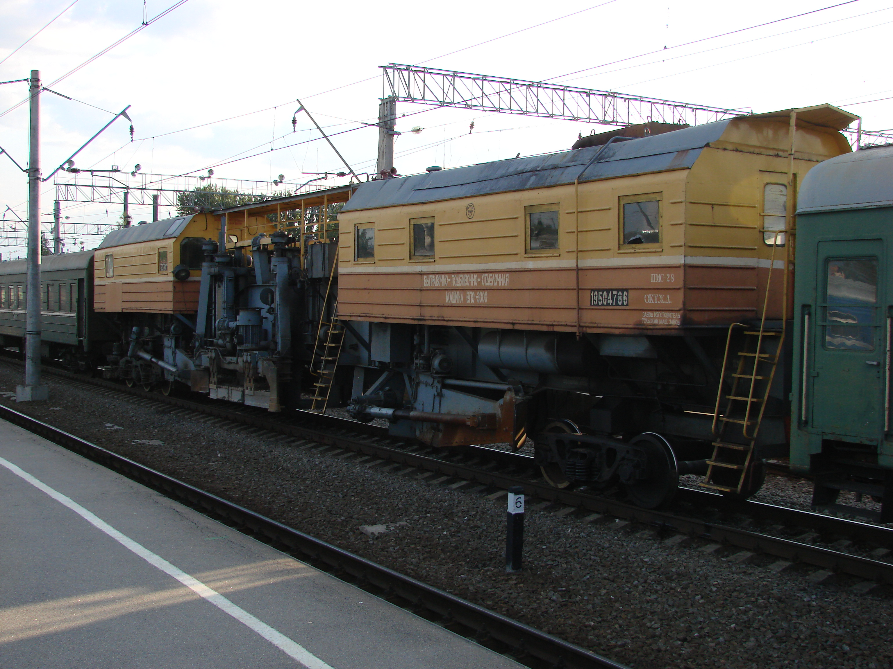 Russian railways Maintenance of way vehicle VPO-3000